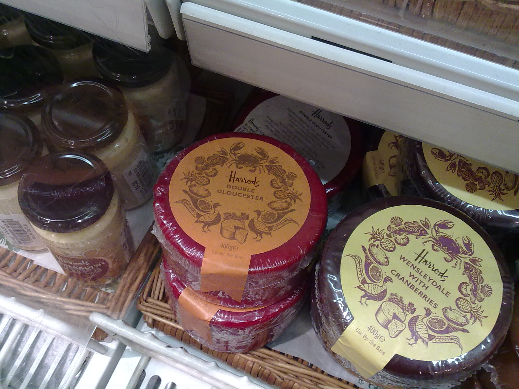 Double Gloucester cheese (at the Heathrow airport Harrods store).